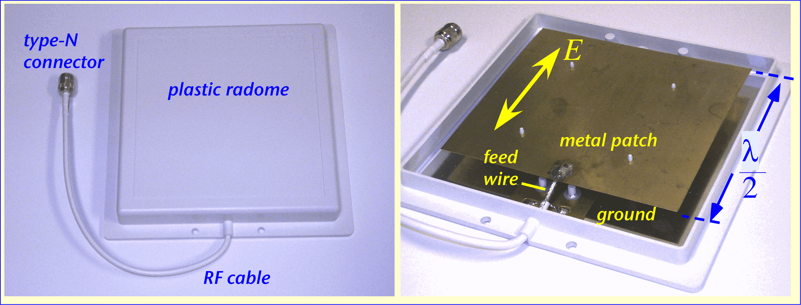 Patch antenna construction photo